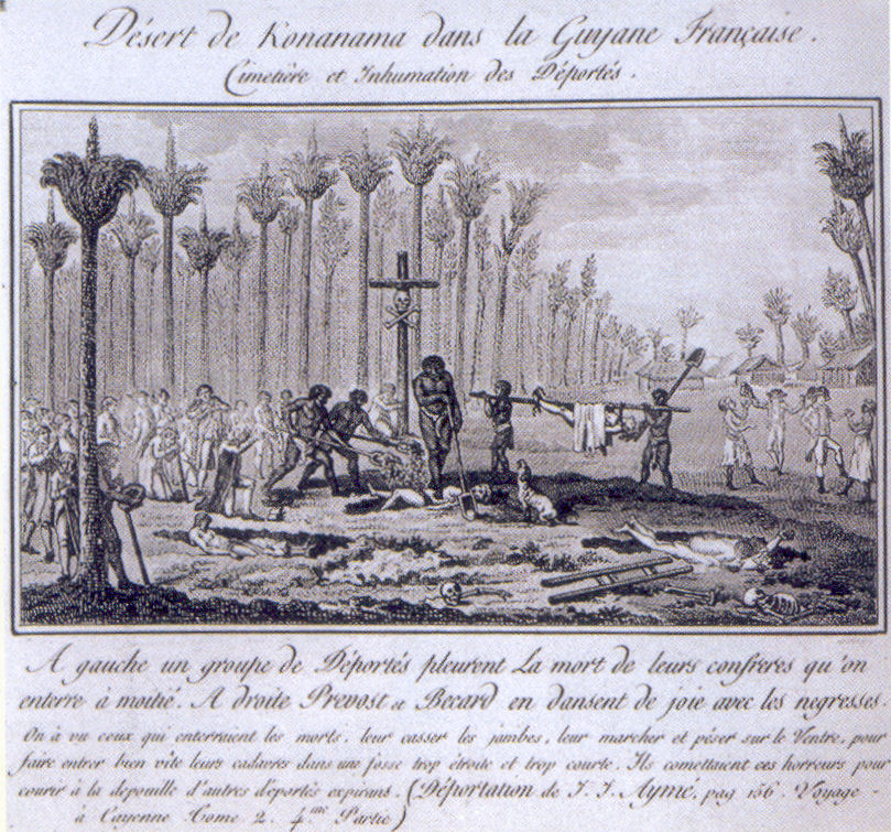 Propaganda engraving of the cemetery of the first political prisoners sent to Kourou, 1791-1800.